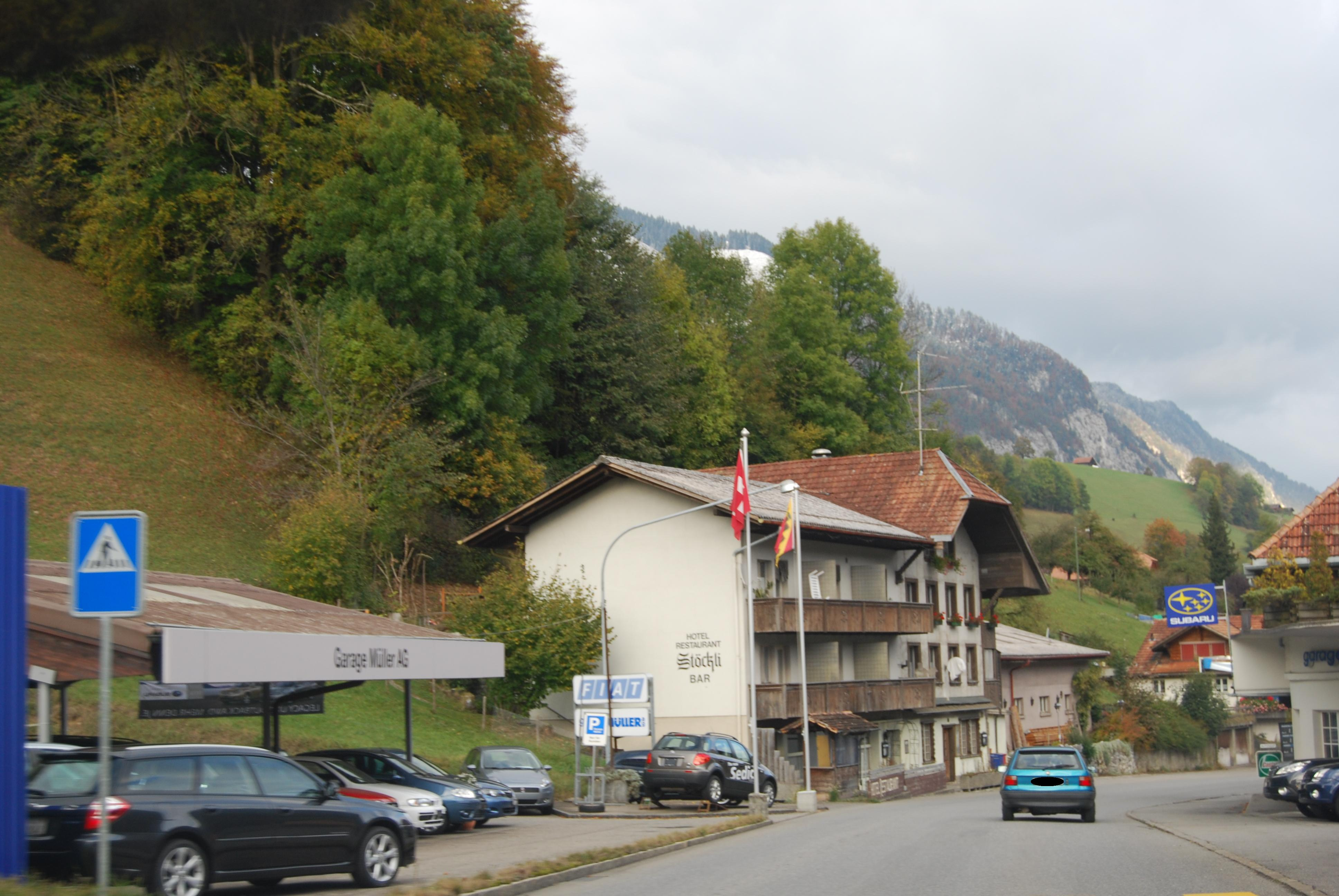 Erlenbach im Simmental, canton of Bern, SwitzerlandEsperanto: Erlenbach en Simme-Valo, Kantono Berno, Svislando